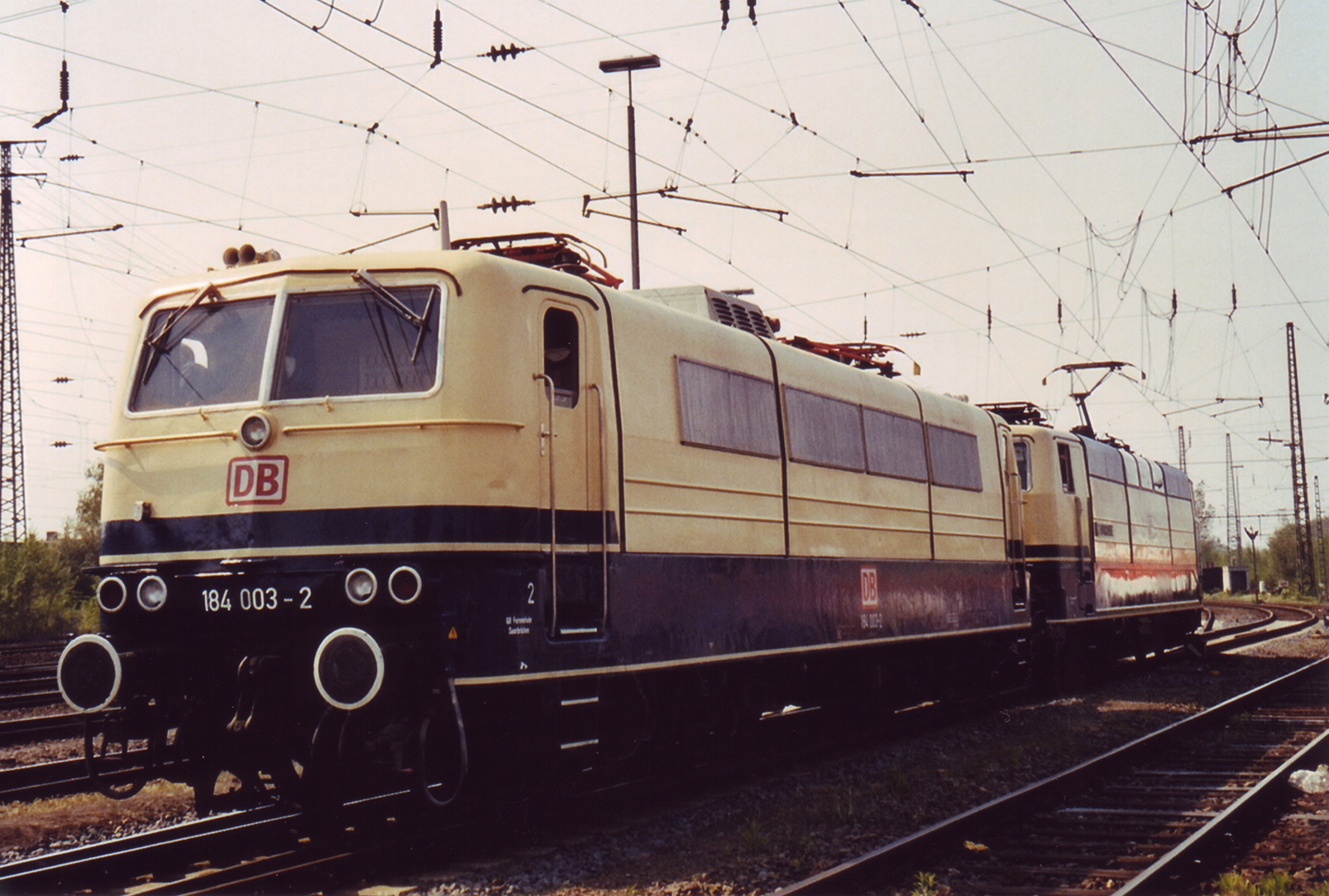 Historical DB electrical locomotive 184 003 pushed by 181 211 ("Lorraine") during a locomotive parade at the open-air exhibition ground of the DB Museum in Koblenz-Luetzel, a local branch of the Transport Museum in Nuremberg, May 2006